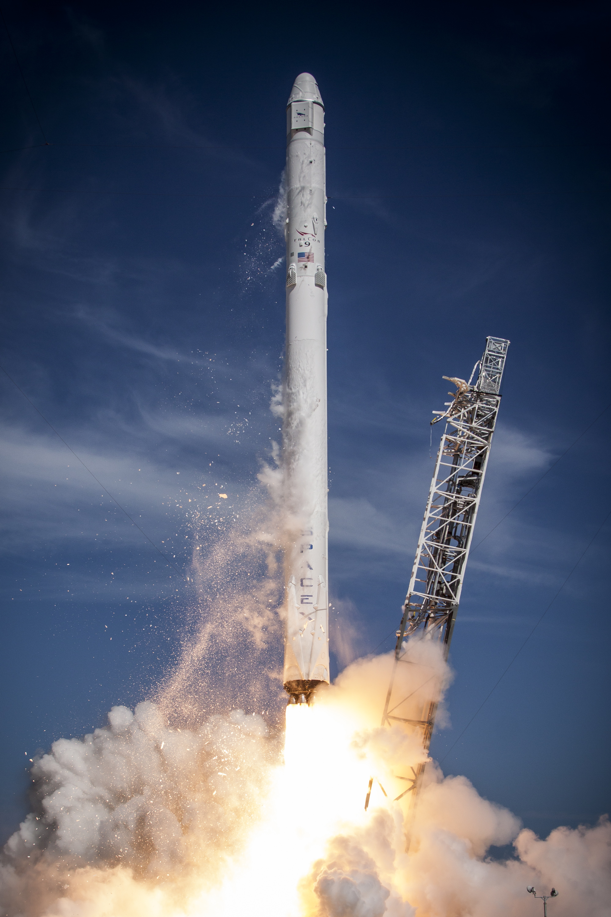 Launch of the Falcon 9 rocket carrying the SpaceX CRS-6 Dragon spacecraft bound for the International Space Station.